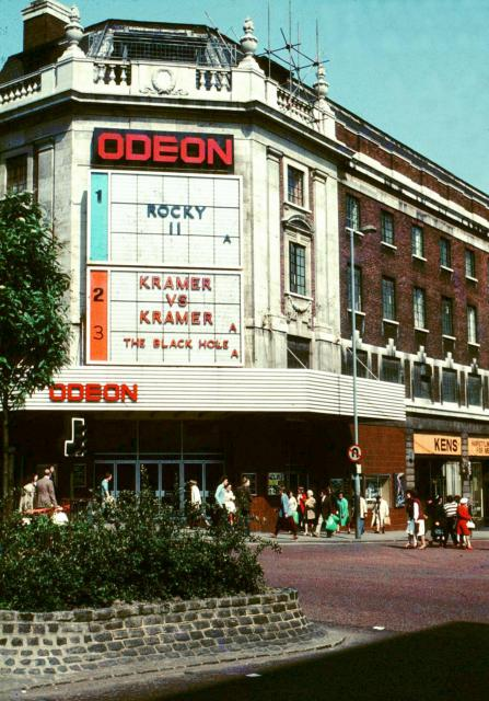 Odeon Cinema, The Headrow, Leeds The photo shows the Odeon Cinema in 1979. It was opened as The Paramount in 1932, becoming part of the Odeon chain in 1940. The cinema was closed in 2001; its beautiful interior was gutted and converted to a Primark clothing store.